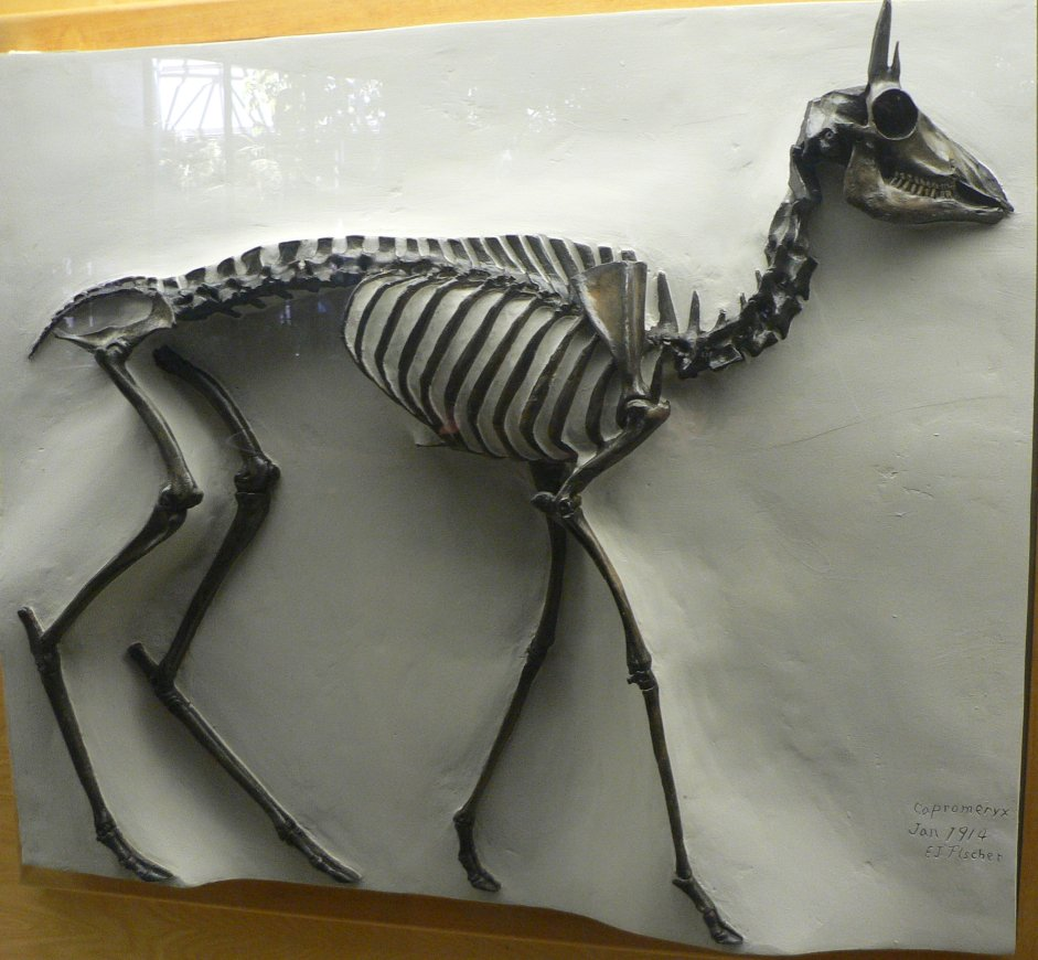 Capromeryx minor, La Brea Tar Pits